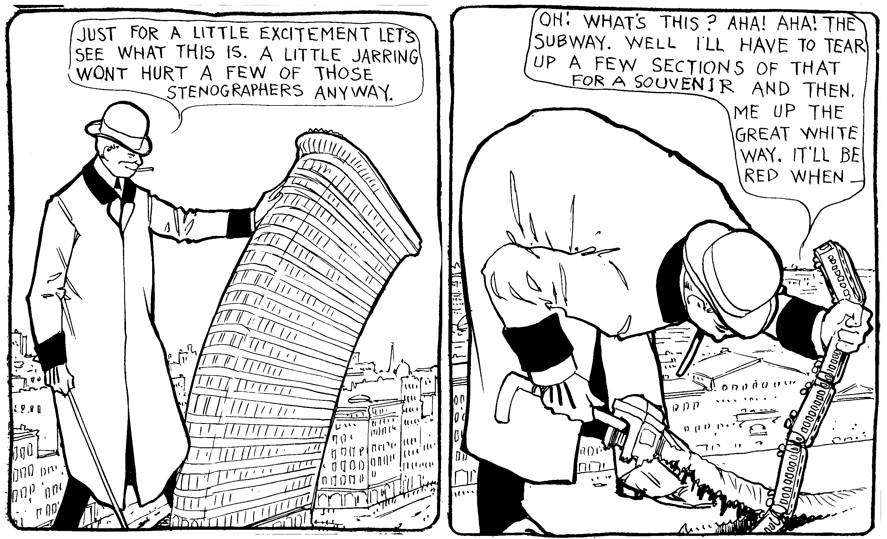 Detail of Dream of the Rarebit Fiend episode from 1905-01-07 by Winsor McCay